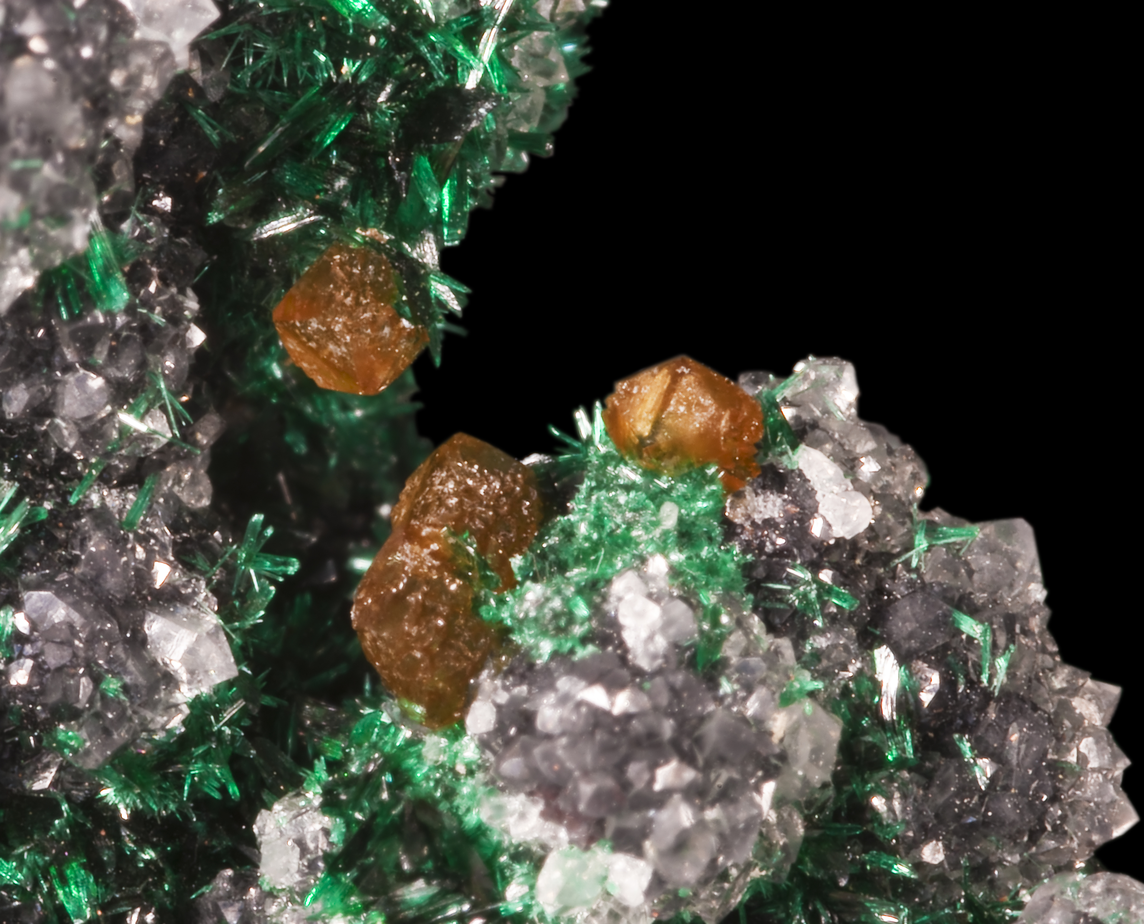 Powellite, Brochantite and quartz Locality : Chuquicamata Mine, Chuquicamata District, Calama, El Loa Province,Antofagasta Region, Chile Size : (View: 3 cm).